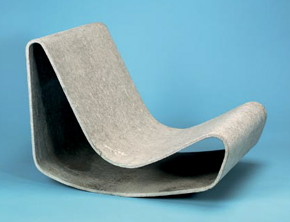 "Loop" rocking chair - fiber ciment Willy Guhl (1954)